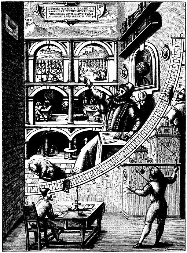 Tycho Brahe in his laboratory